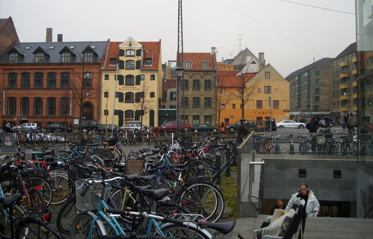 Many people use cykles for transportation (or parts of) within Copenhagen, here illustrated by the many bikes by the Metro station Christianshavn